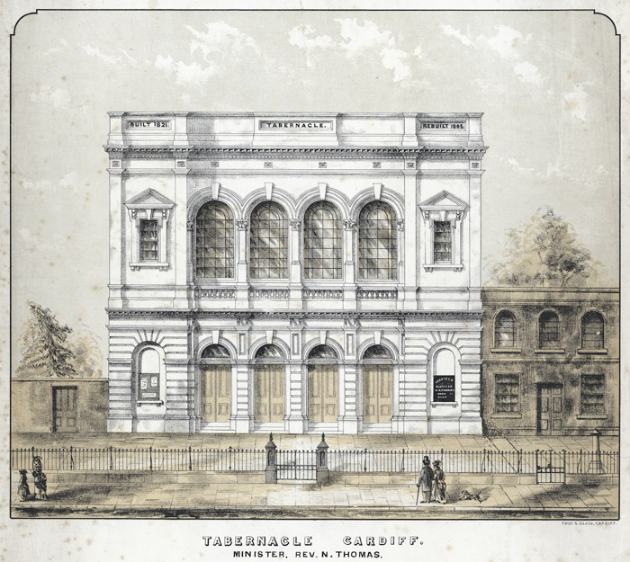 The exterior view of the Tabernacle chapel at Cardiff. Figures can be seen walking on the pavement outside the chapel.